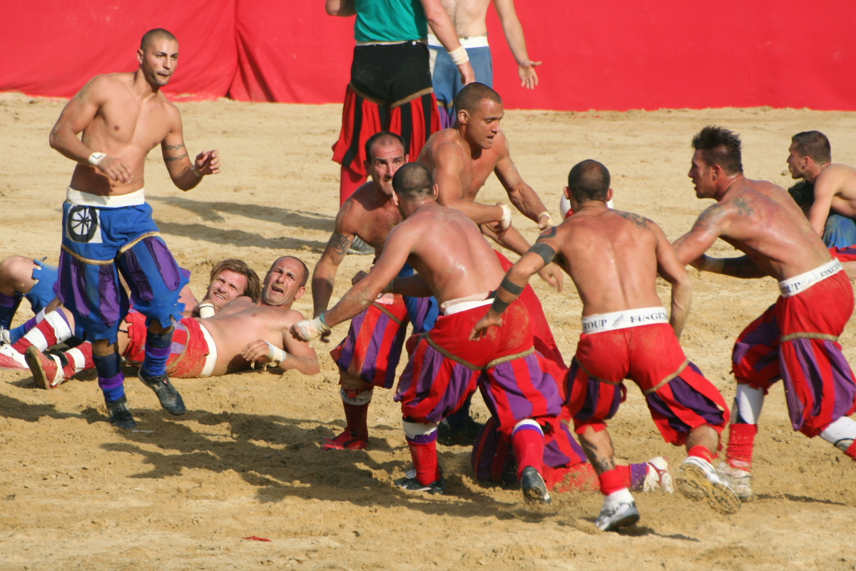 Calcio Storico - 24.06.2008 - Azzurri Vs. Rossi